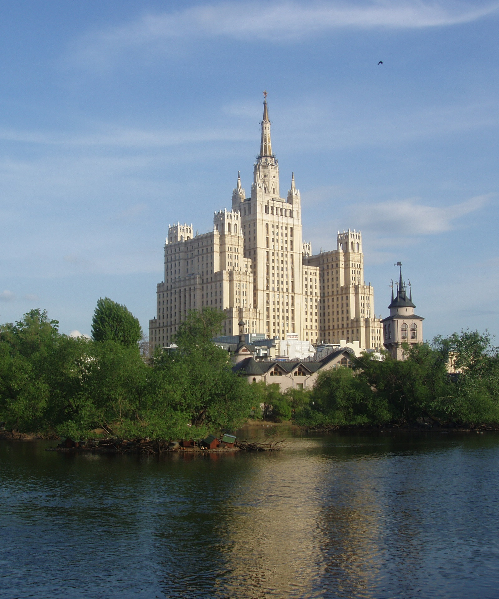 Kudrinskaya Square Building (sight from Moscow Zoo)